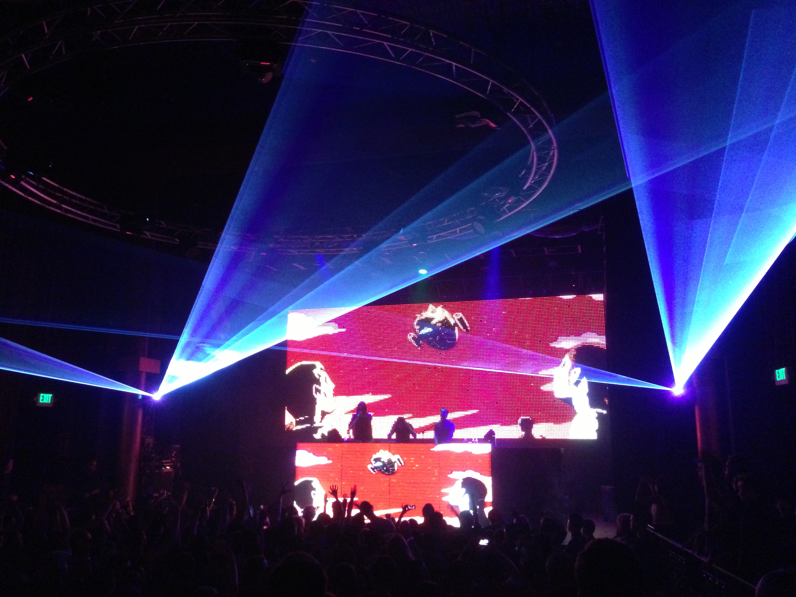 Photo taken live